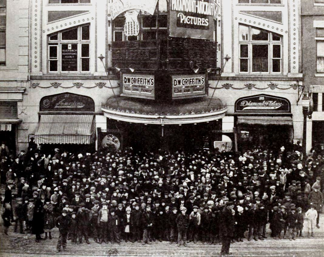 The American Theater in Butte, Montana, gave a free admission for "young America" of a morning matinee showing of the first episode of the 18 episode American film serial The Phantom Foe (1920), on page 159 of the December 25, 1920 Exhibitors Herald. The photograph shows the crowd of youngsters prior to the theater doors opening. The regular show at the theater that day was the film The Love Flower (1920).